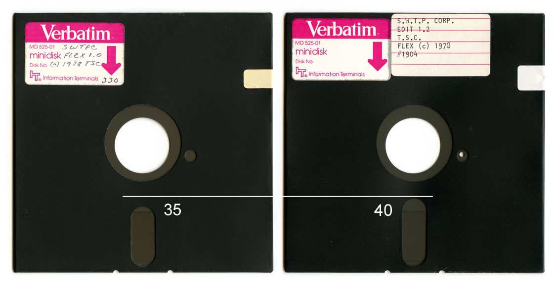 The 5.25 inch disk on the left supports 35 data tracks, the one on the right with the larger opening supports 40 tracks. When Shugart introduce the SA-400 Minifloppy in August 1976 it used 35 tracks. In 1977 Wangco Inc. of Garden Grove, California announced the Model 82 Micro Floppy that was compatible with the SA-400 but it supported 40 data tracks. The diskettes for the Shugart SA-400 Minifloppy were jointly developed by Dysan Corporation and Information Terminals Corporation. The claim of copyright is for the contents of the disk, not the hand made labels. These provide a date the disks were first used. Disks scanned with an Epson Perfection V500 Photo scanner.